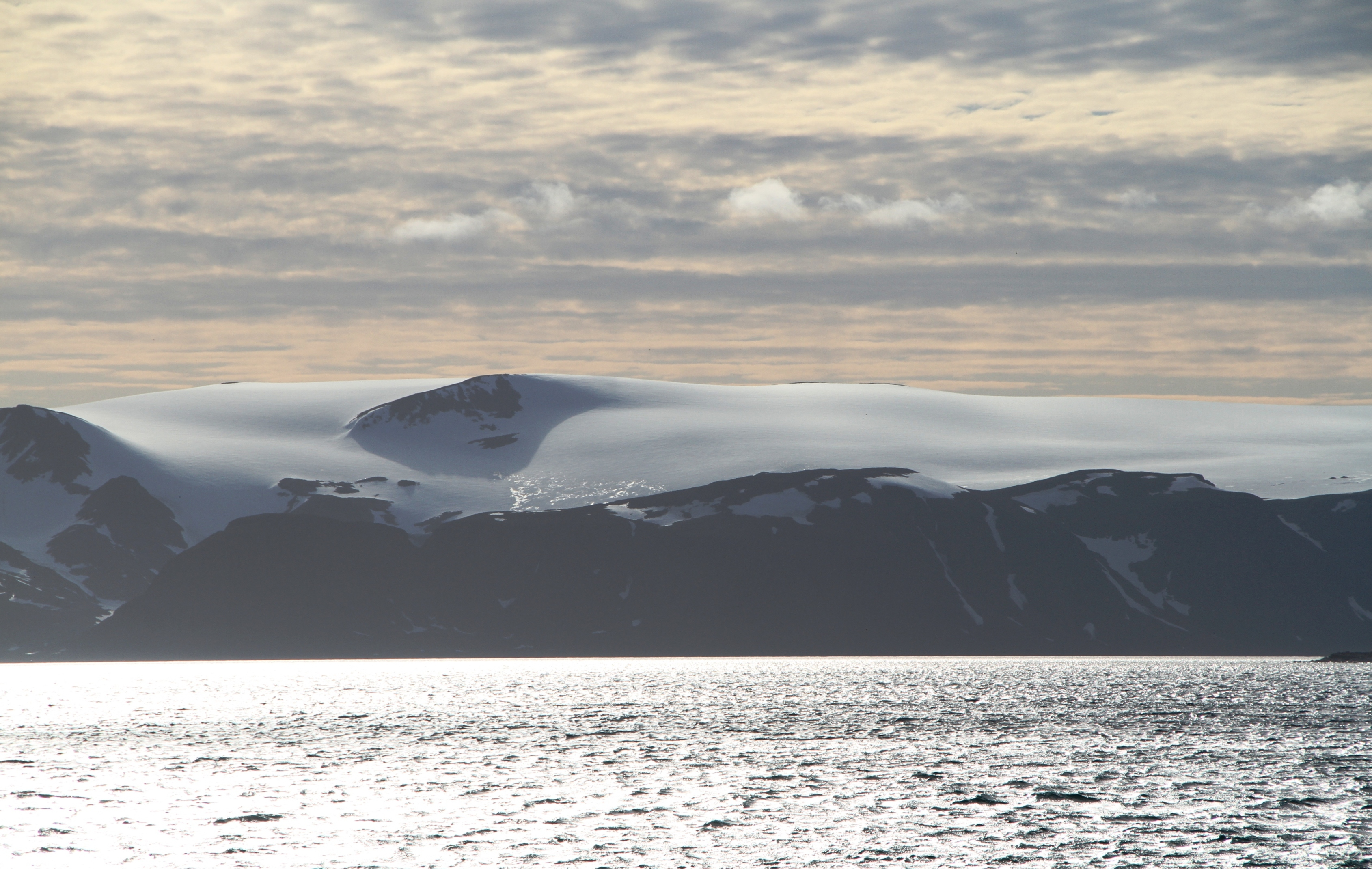 Biscayarhalvøya peninsula on the central part of the north coast of Albert I Land, northern Spitsbergen.